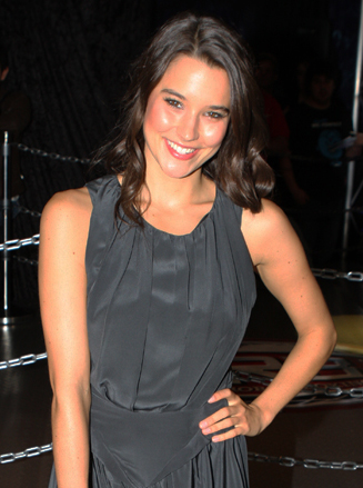 Rhiannon Fish at the Sydney film premiere of Real Steel.